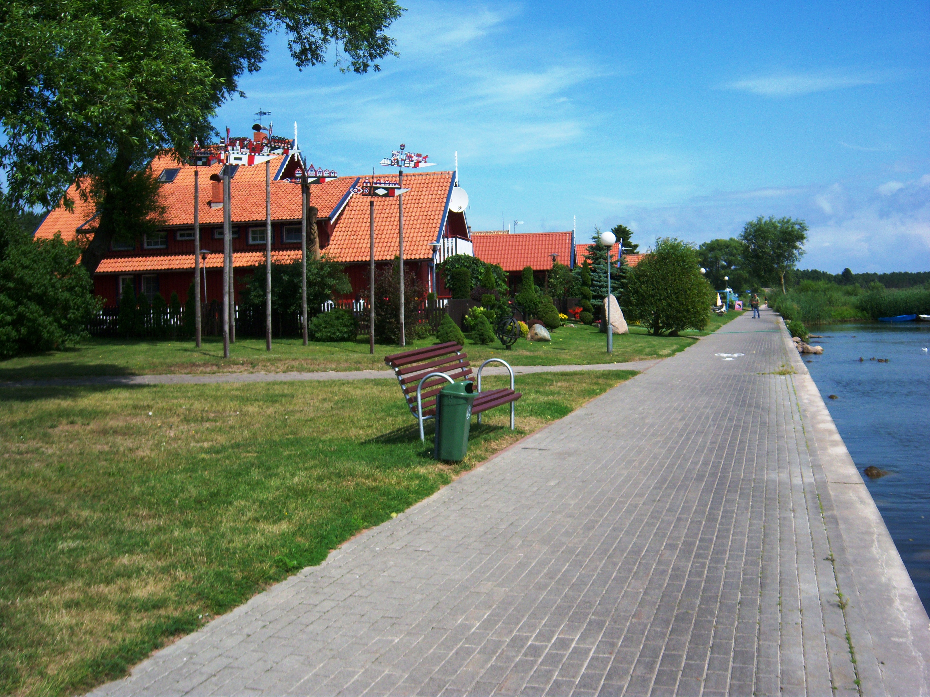 Purvynės Street in Nida, Lithuania